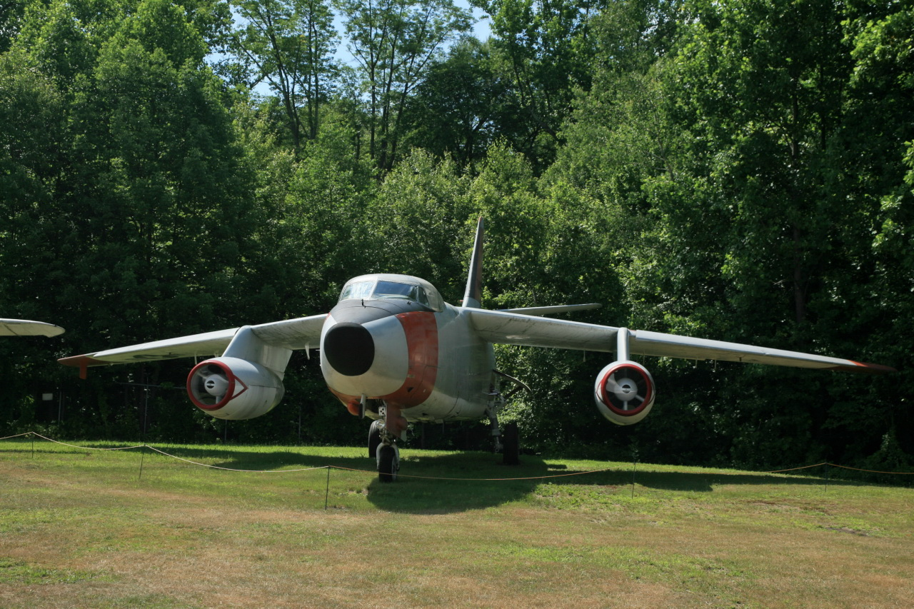 A former U.S. Navy Douglas A-3B Skywarrior bomber (BuNo 142246) on display at the New England Air Museum at Bradley International Airport, Windsor Locks, Connecticut (USA), on 2 July 2007.